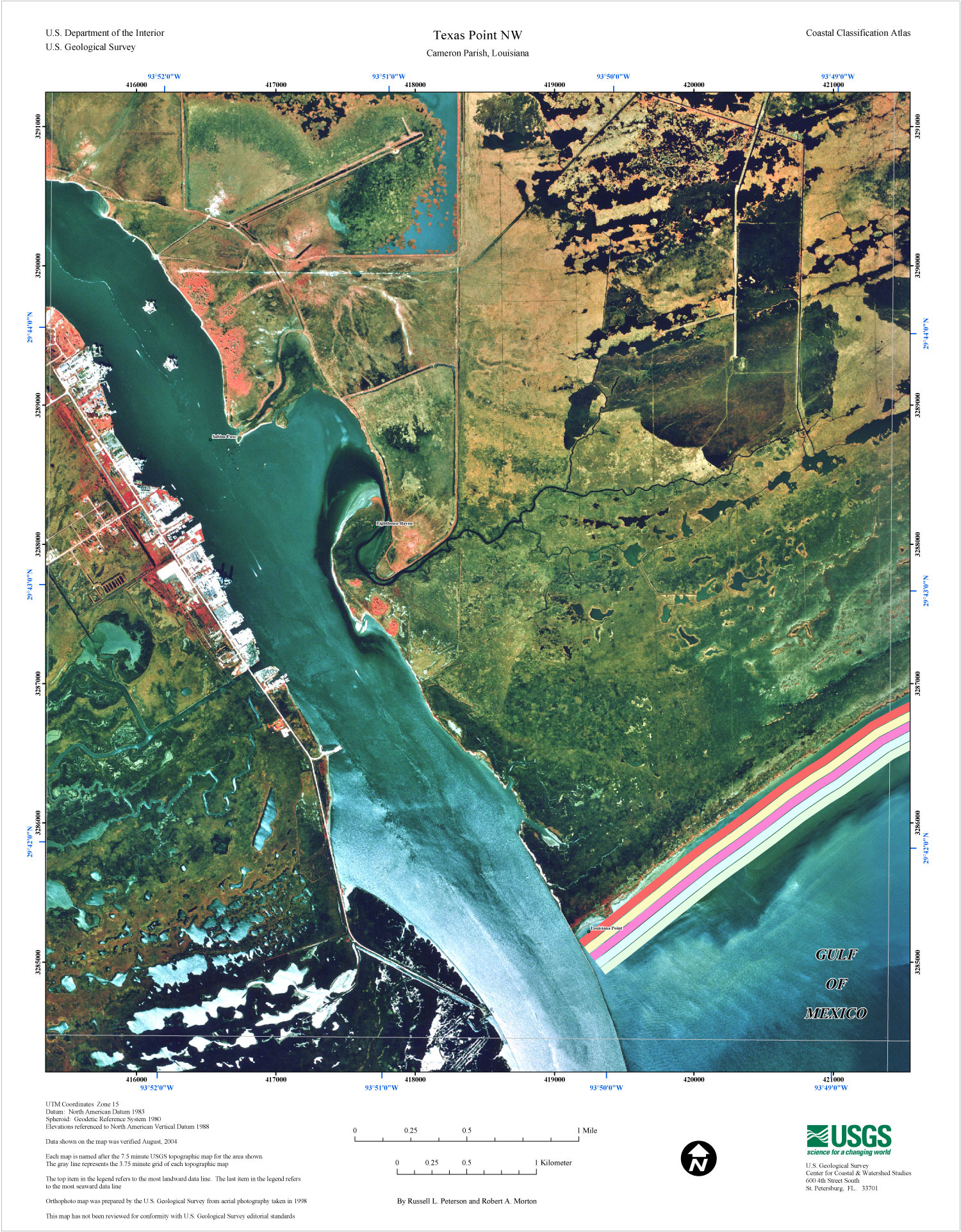 USGS map of Sabine Pass at the border of Texas and Louisiana, 2004. Orthophoto map was prepared by the U.S. Geological Survey from aerial photography taken in 1998